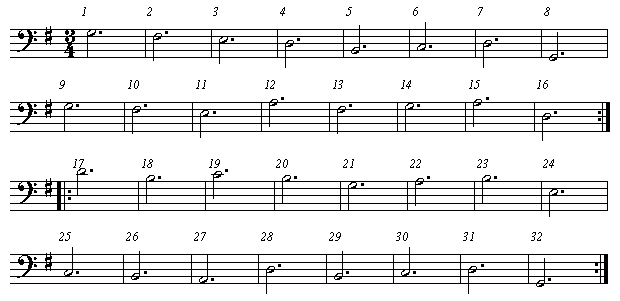 Own edition of the "Fundamental-Noten" of BWV 988, J. S. Bach's Goldberg-Variationen